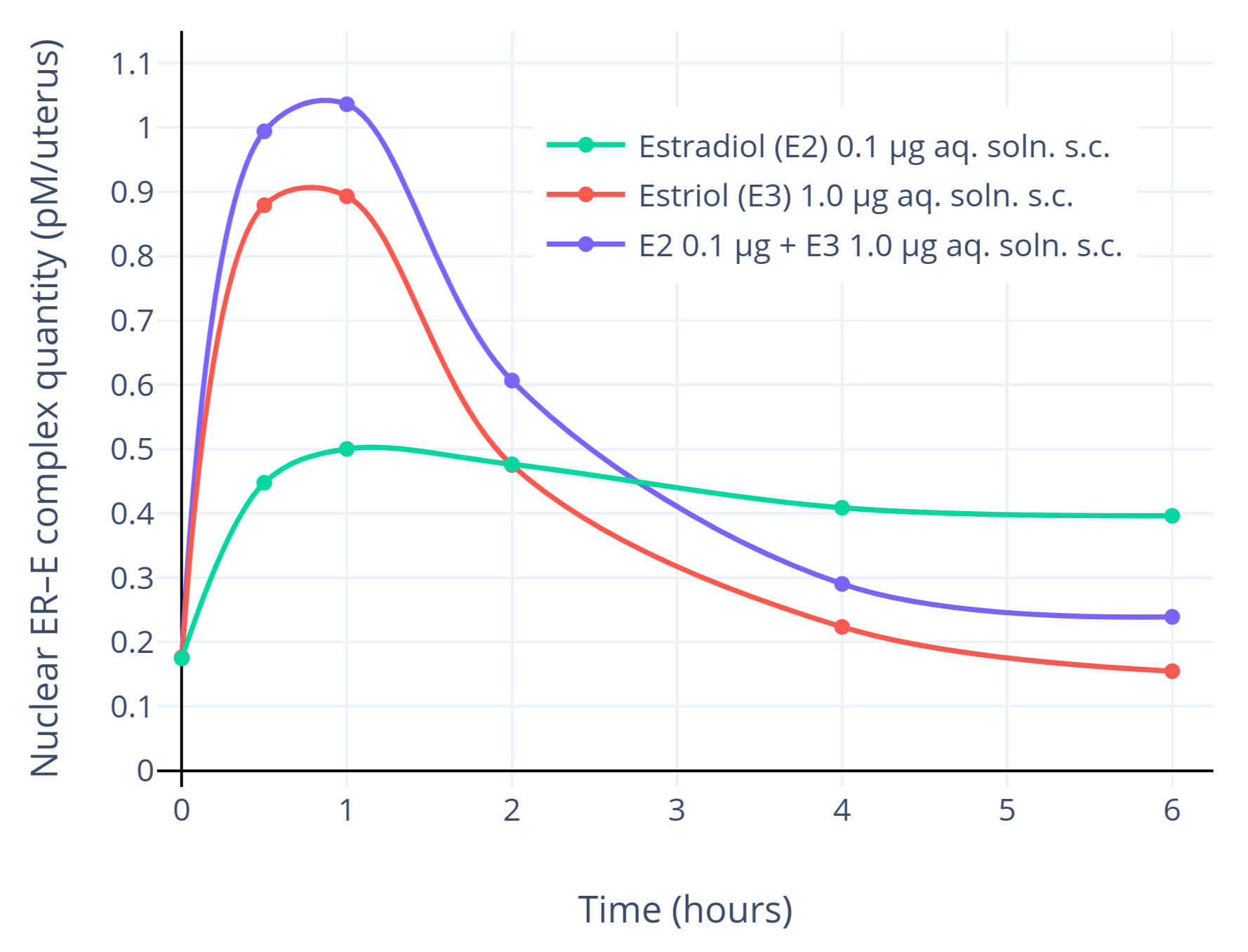 Nuclear retention of the receptor estrogen complex in the uterus (i.e., bound estrogen receptor–estrogen complex quantity in pmol/uterus) with a single subcutaneous injection of 0.1 μg estradiol (E2), 1.0 μg estriol (E3), or a combination of 0.1 μg estradiol and 1.0 μg estriol in aqueous solution in immature rats. Each point represents the mean ± SEM of three experiments with four rats per experiment. The graph shows that estriol displaces estradiol from estrogen receptors and, due to the shorter nuclear retention of estriol, it thereby antagonizes the nuclear uptake and retention of estradiol. Sources of the values: (January 1977). "Nuclear binding and retention of the receptor estrogen complex: relation to the agonistic and antagonistic properties of estriol". Endocrinology 100 (1): 91–6. PMID 830547. "Control of Steroid Receptor Levels and Steroid Antagonism" in (1979) Female Sex Steroids: Receptors and Function, 14, pp. 99–134